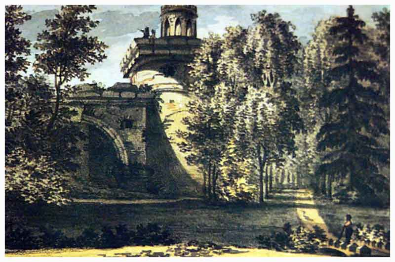 Kind on the Tower - Ruinu in Tsarskoe Selo. V.P.Langer's figure